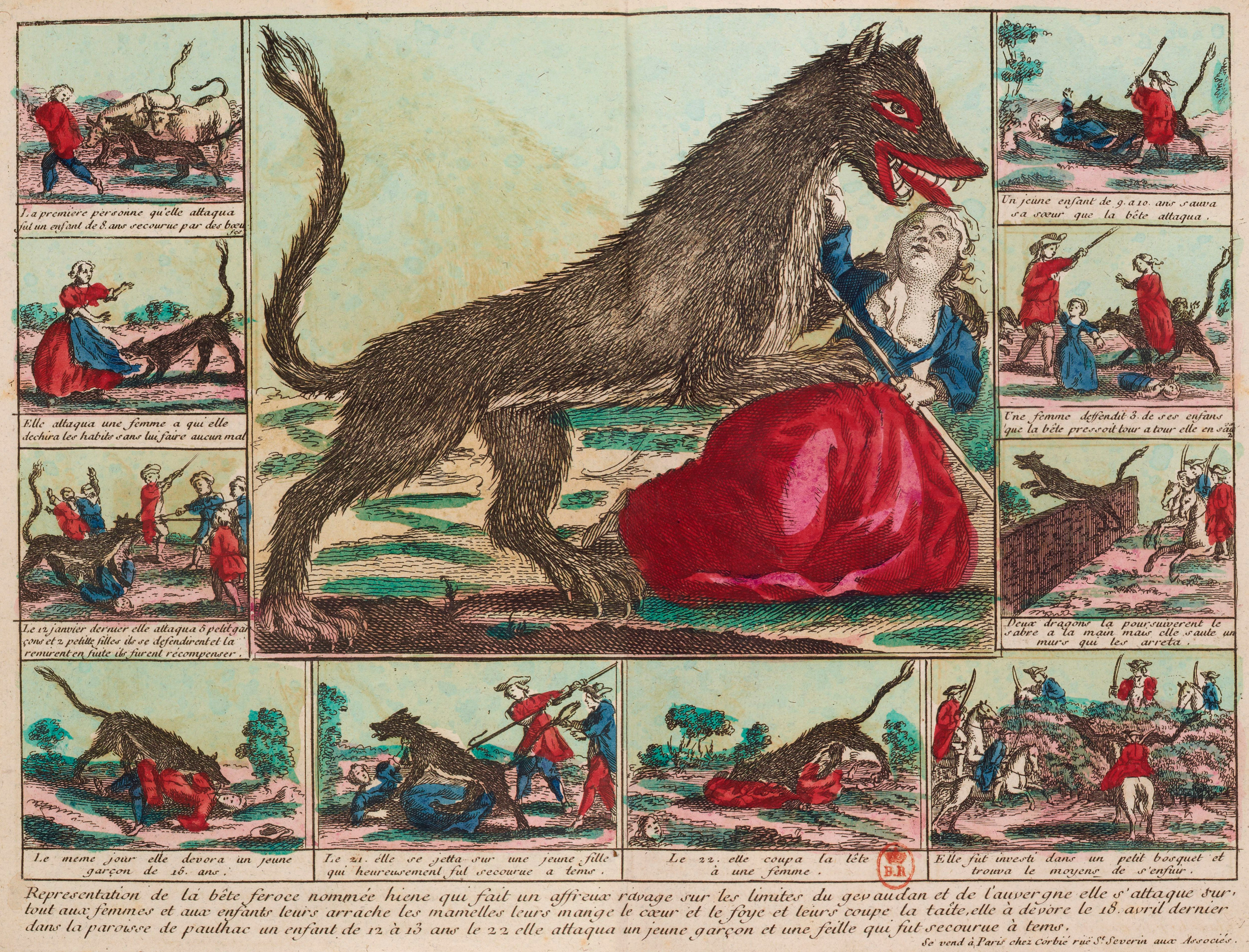 18th century print depicting the Beast of Gévaudan.